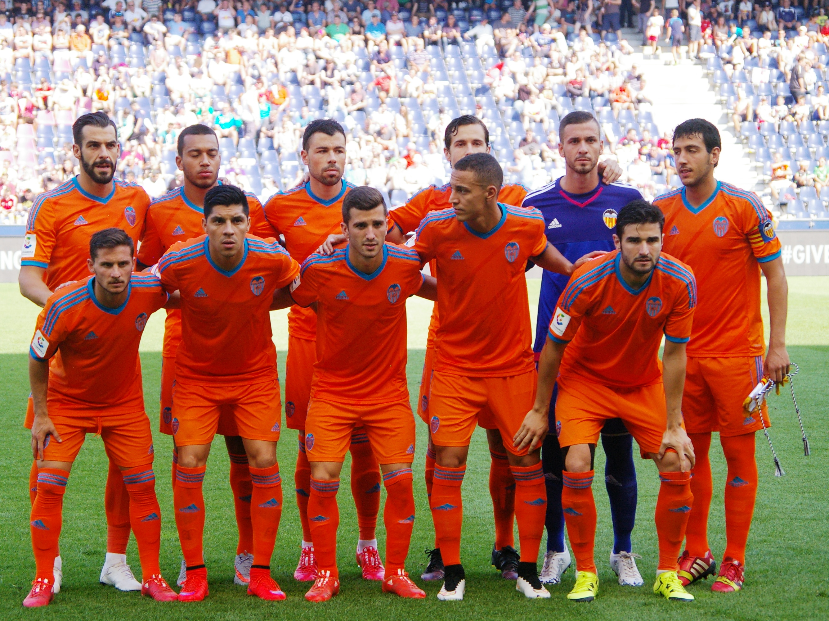 tournament with SV Werder Bremen, FC Southampton, Red Bull Salzburg and Valencia CF preseason friendly matches